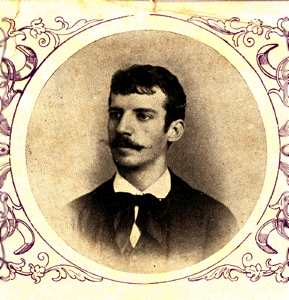 Julián del Casal (1863 — 1893), Cuban modernist poet